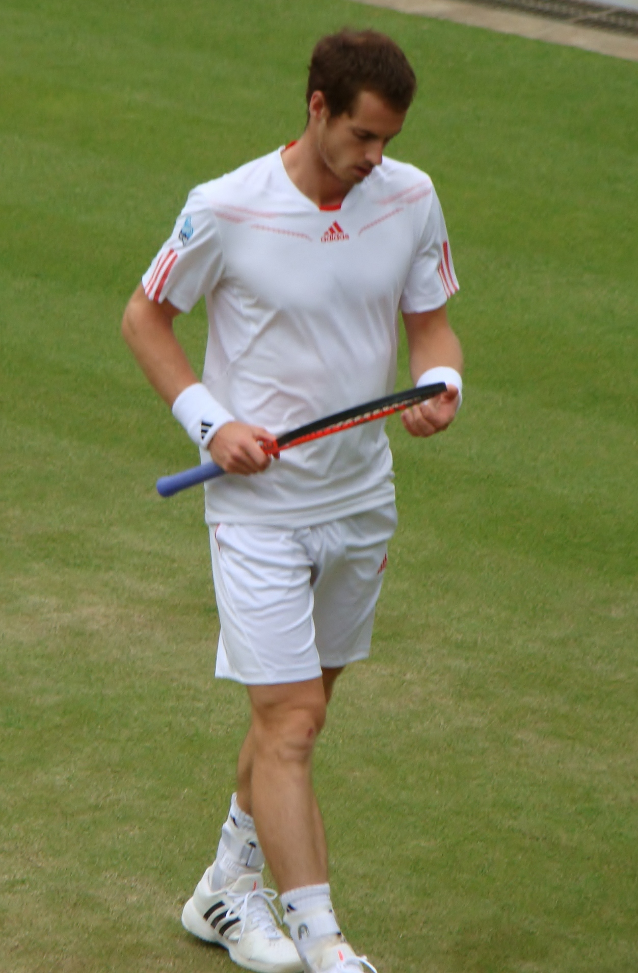 Andy Murray photographed during the match against Cilic at Wimbledon in 2012.